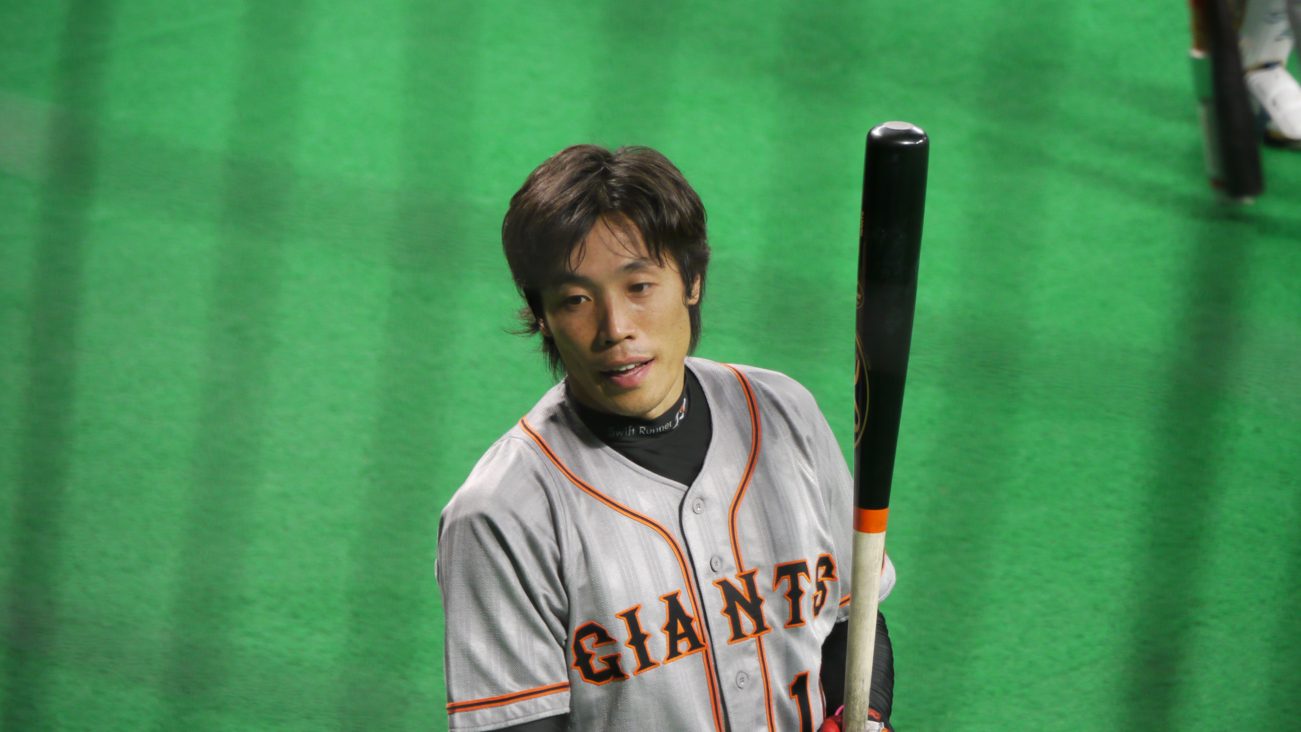 Takahiro Suzuki, outfielder of the Yomiuri Giants, at Nagoya Dome.